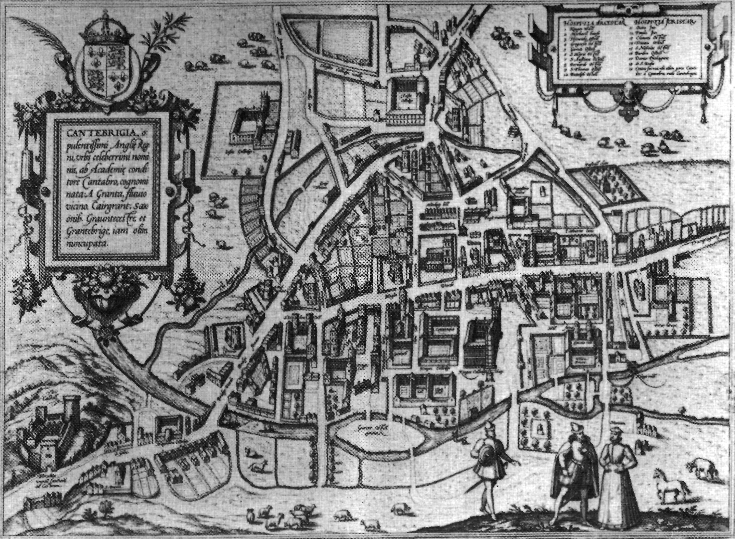 Map of Cambridge dated 1575. The inscription reads: Cantebrigia: opulentissimi Anglie Regni, urbs celeberrimi nominis, ab Academie conditore Cantabro, cognominata: A Granta, fluvio vicino, Cairgrant; saxonib, Grauntecestre, et Grantebrige, iam olim nuncupata.